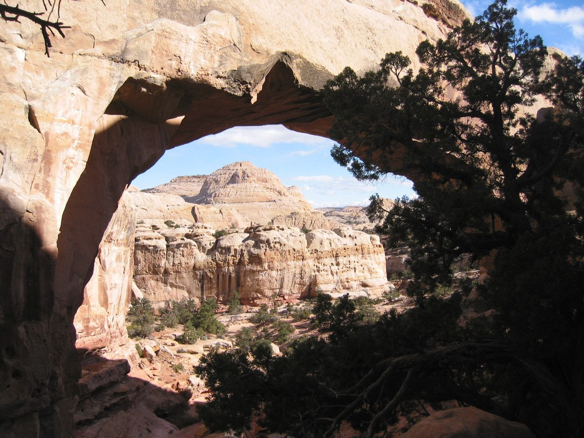 Hickman Bridge in Capitol Reef National Park, Utah, USA.